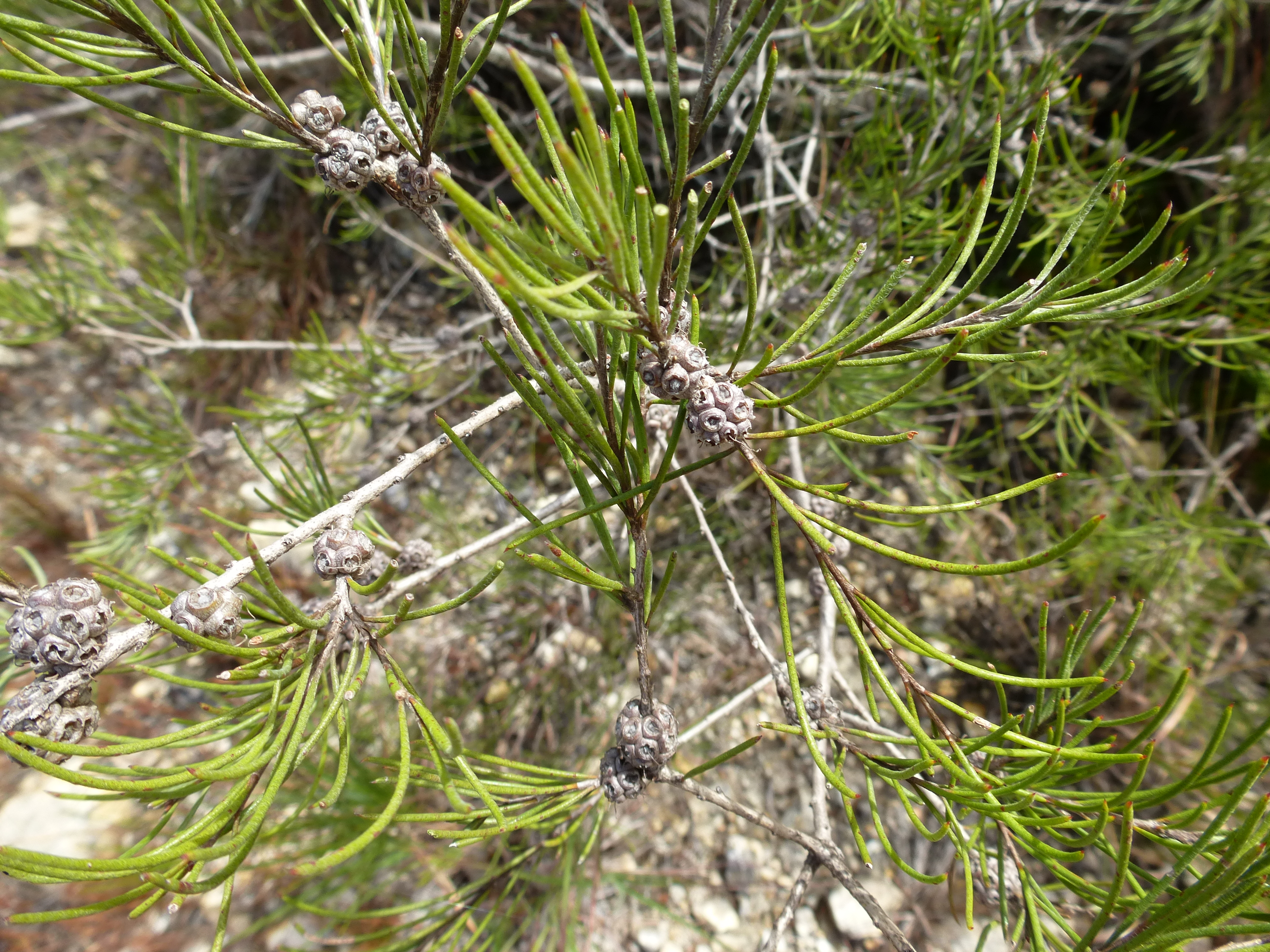 Melaleuca borealis (foliage and fruit near Ravenshoe